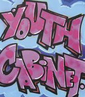 The logo of the esyc